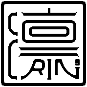 Logo of japan J-pop trio-band named Rin'